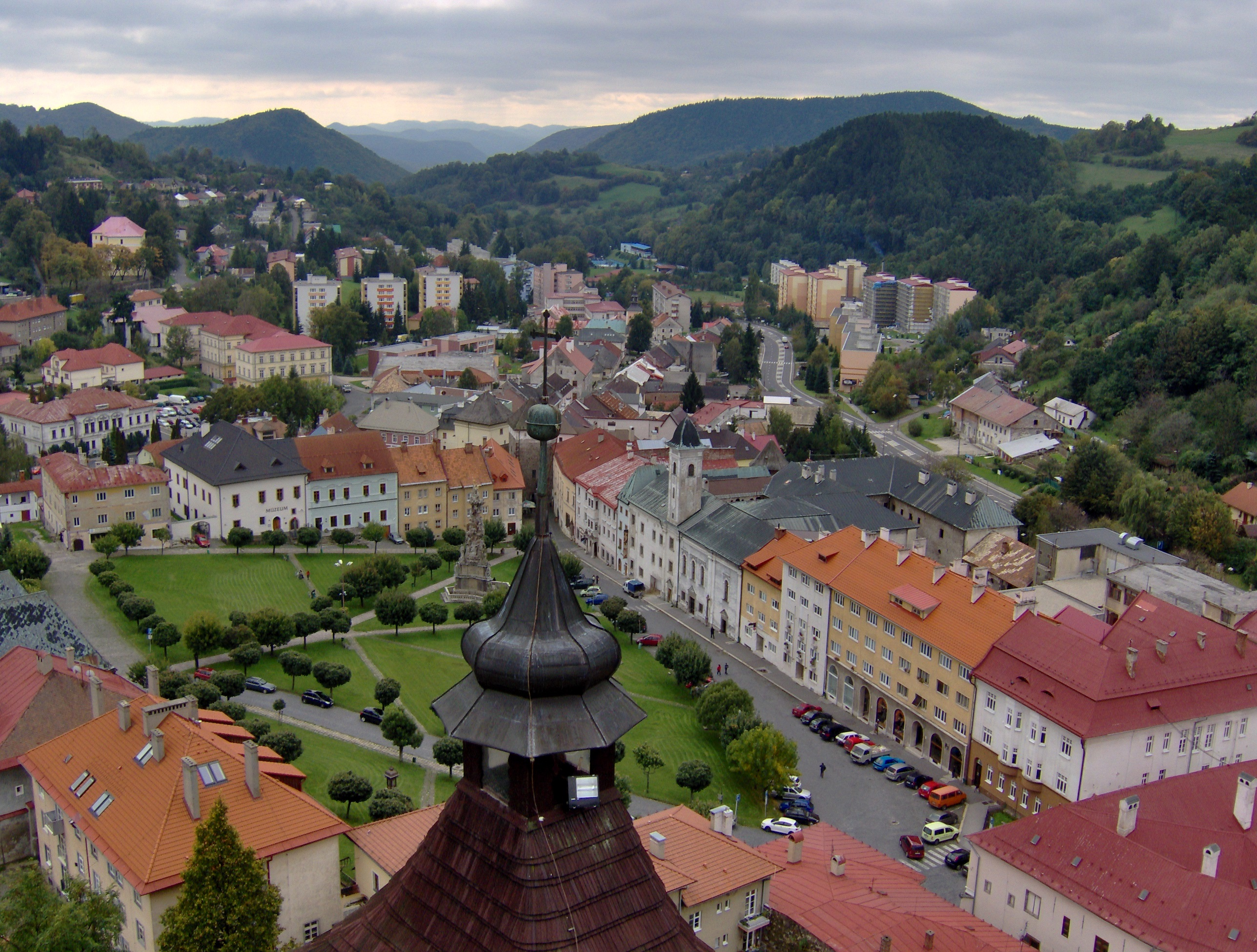 Kremnica- view from the tower in Saint Catherine Church